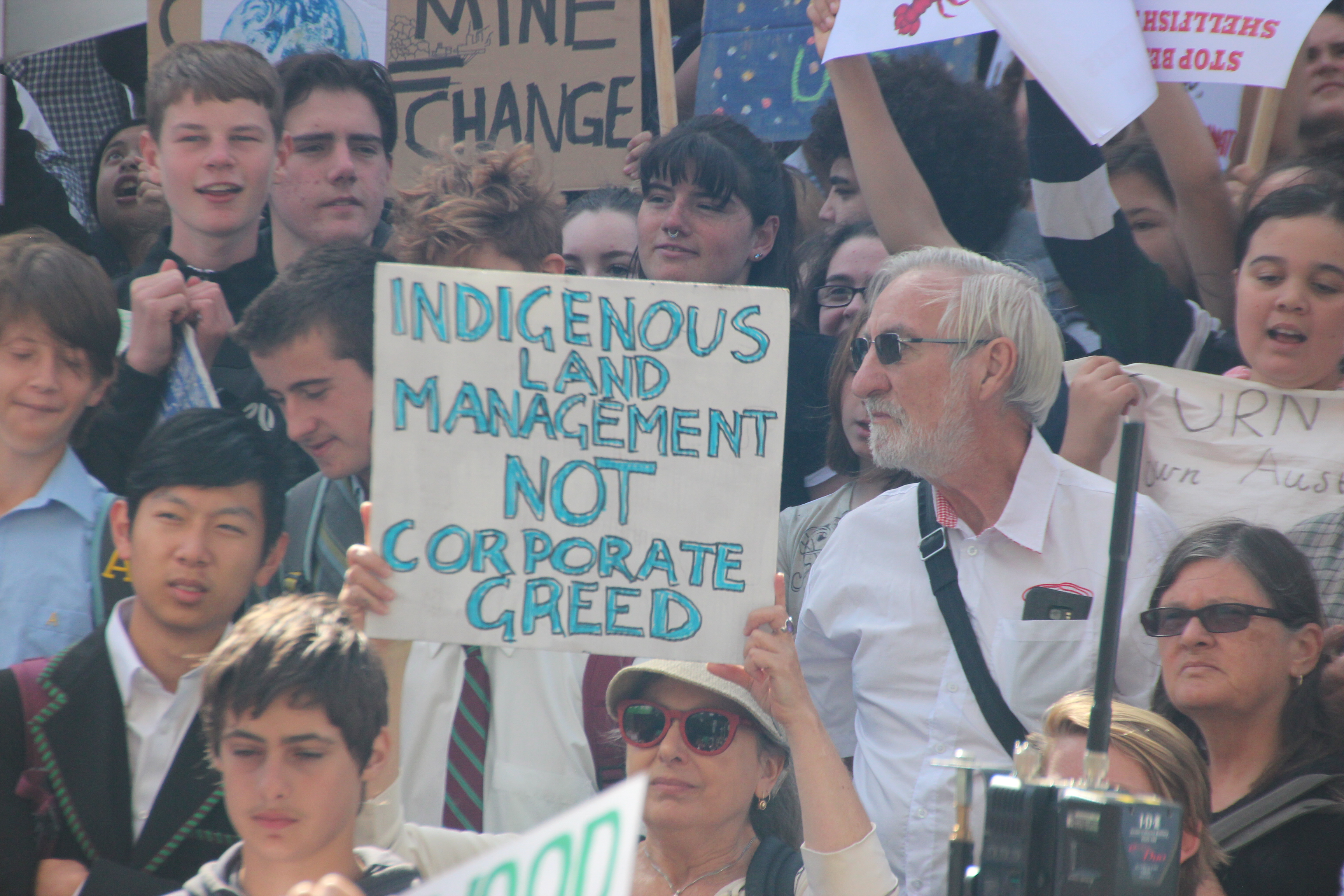 Melbourne was part of the global climate strike on March 15, drawing an enormous crowd estimated at 40,000 people, the vast majority school students. After welcome to country and some speeches at the Old Treasury Building the march wound it's way through CBD streets, down Collins Street and up Bourke street, then down to Treasury Gardens. It was a highly energetic march with the roar of chanting calling for coal, don't dig it, and for climate action now.